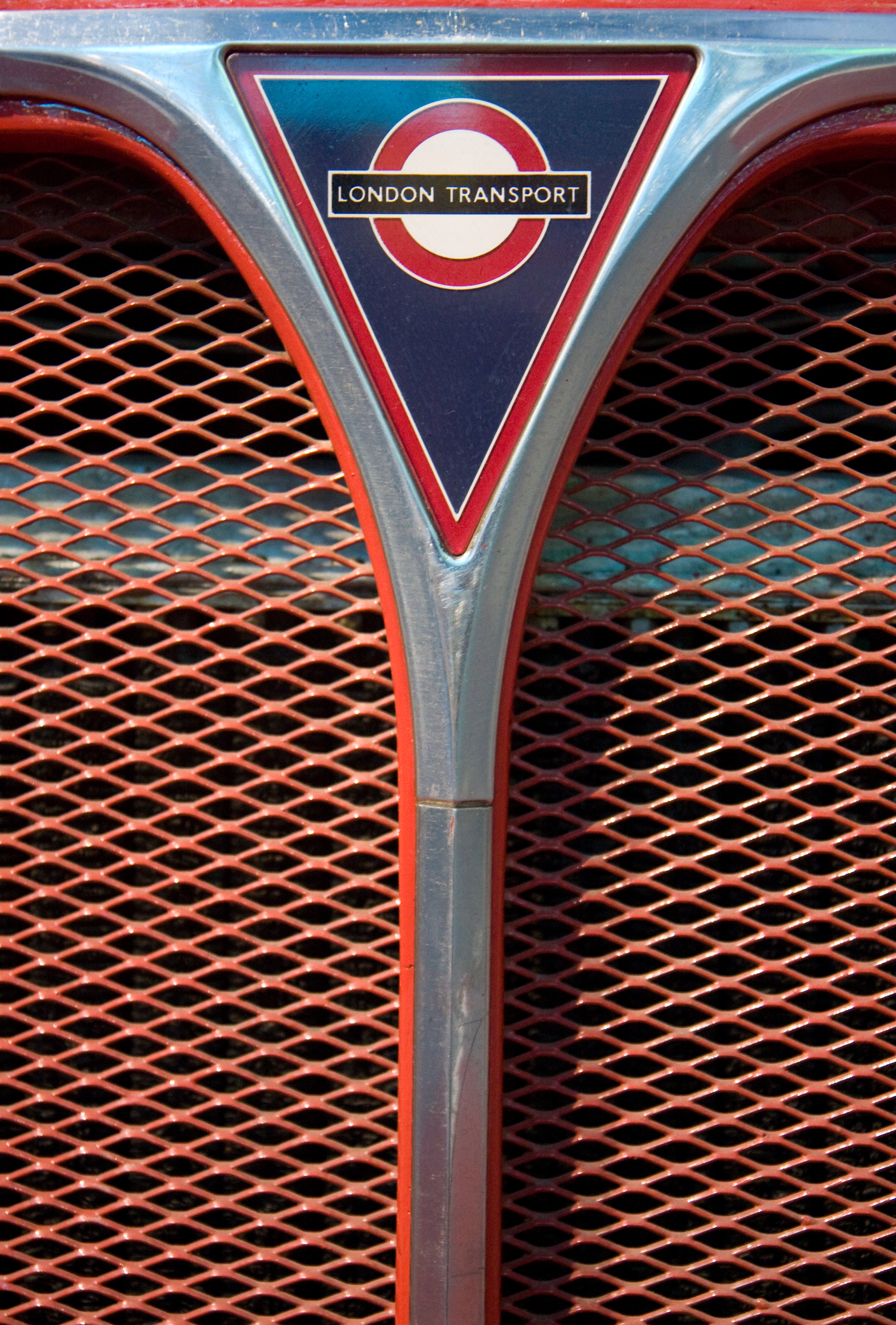 Routemaster radiator badge